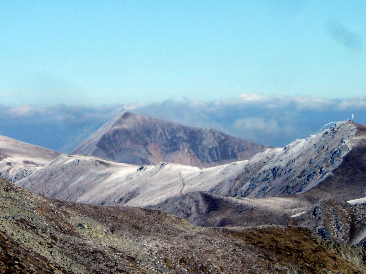 Ljuboten and Piribeg peaks on Šar Mountain, Macedonia